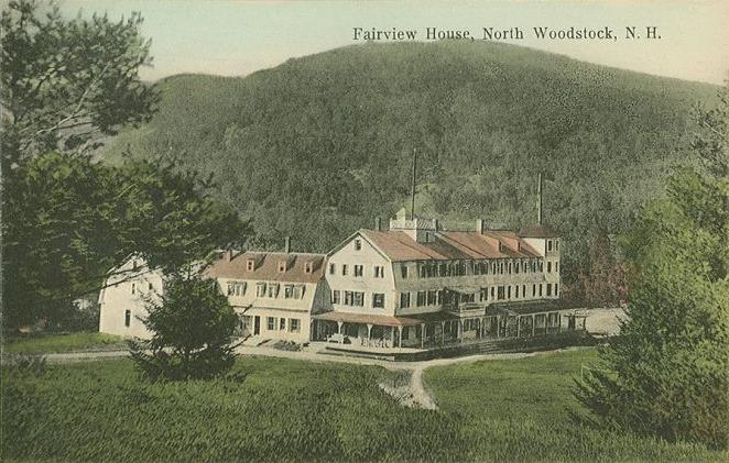 The Fairview House, North Woodstock, New Hampshire